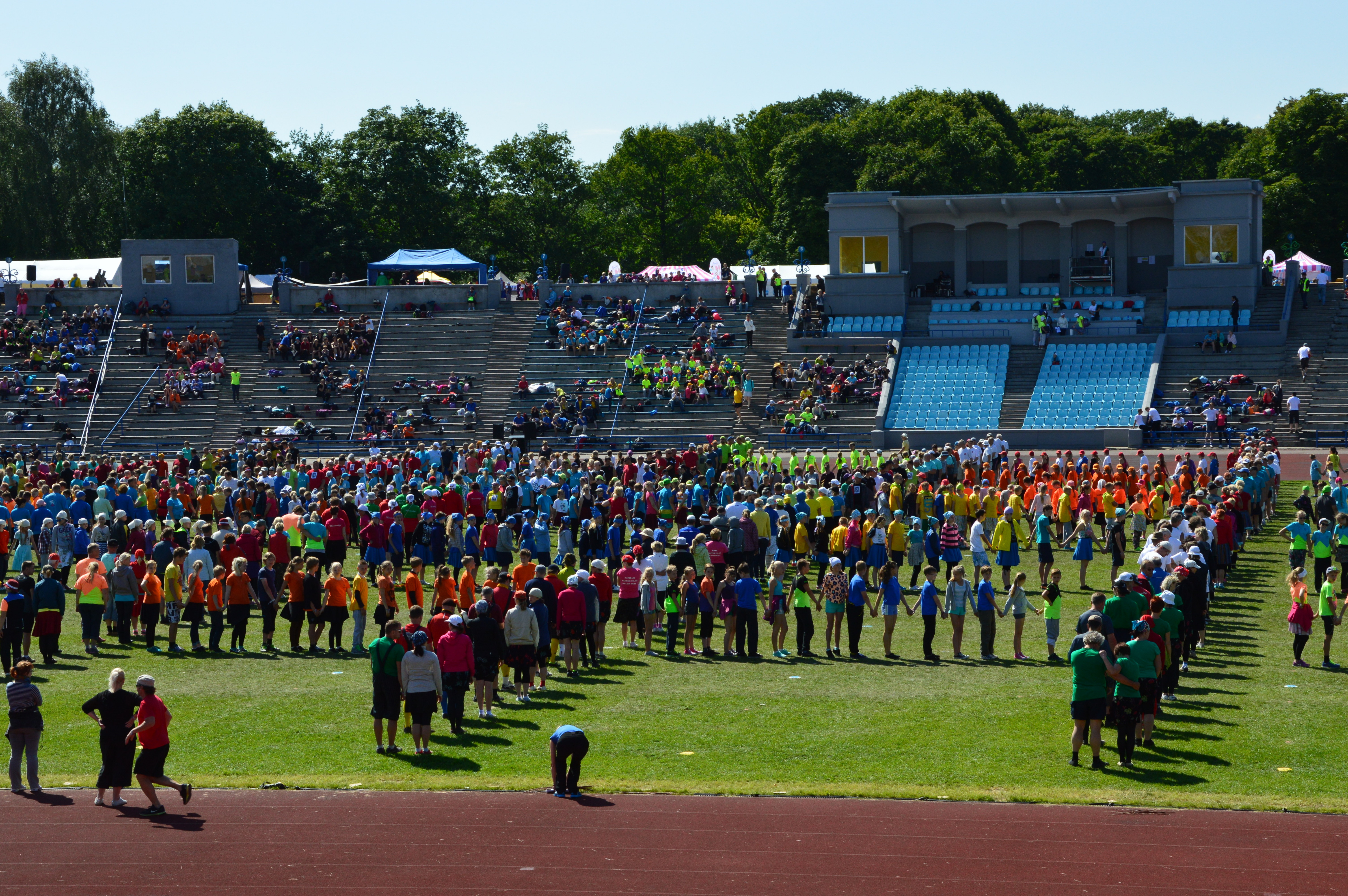 Preparations for XIX Estonian Dance Celebration.